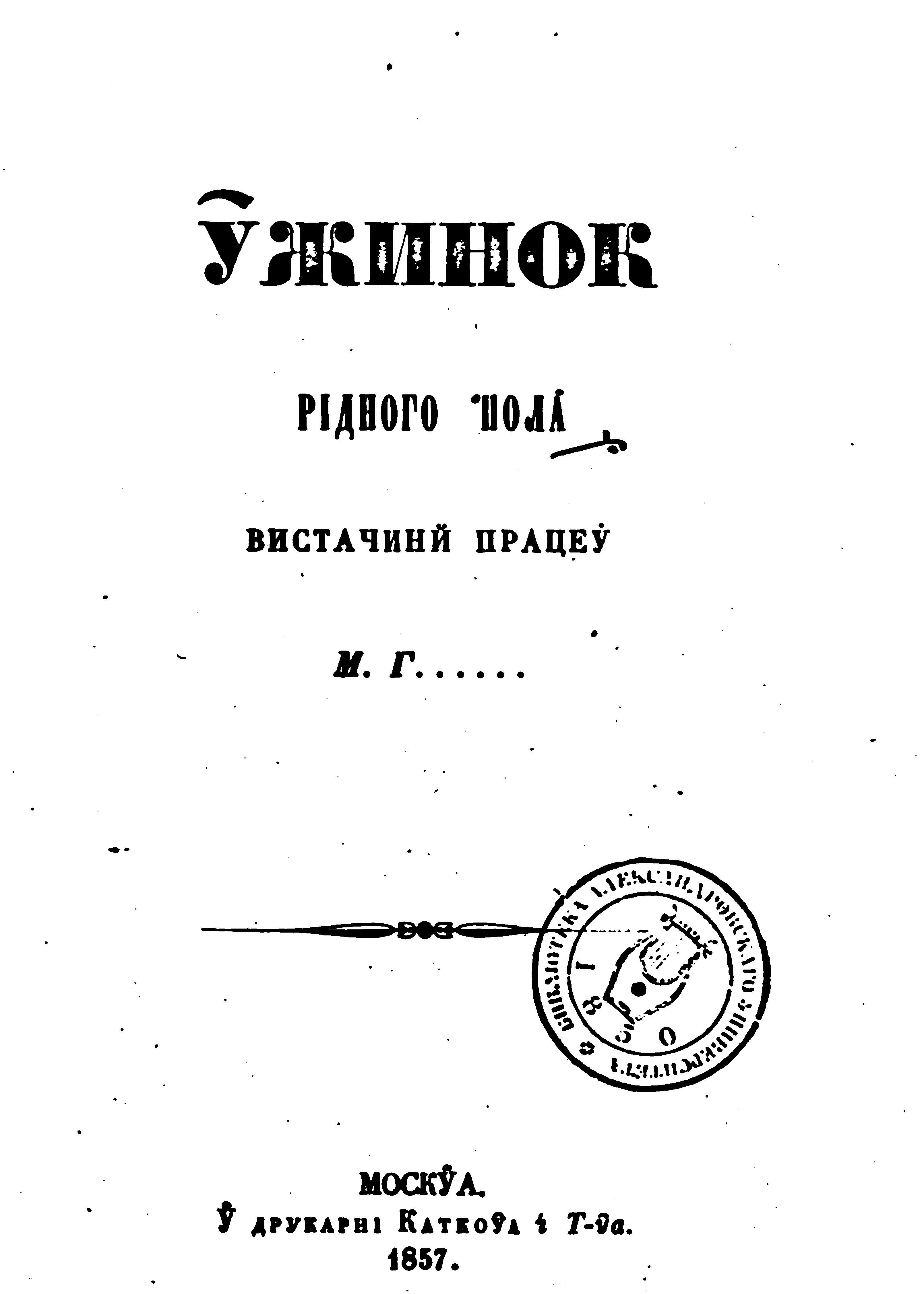 Title of M.Hatzuk (1857) "Uzynok ridnogo pola", Katkov&Co printing house, Moscow